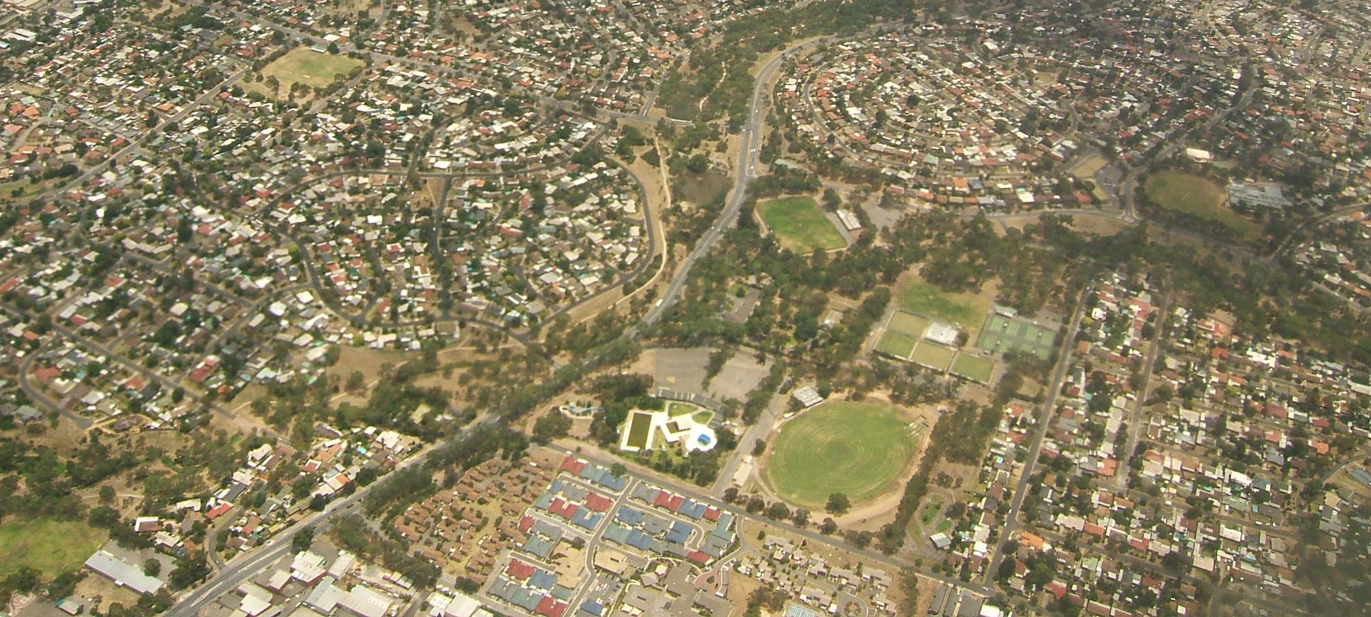 Aerial view of Ridgehaven, Adelaide